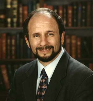 Sen. Paul Wellstone (D-Minnesota)